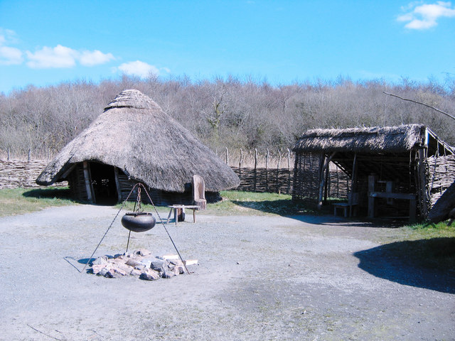 Ferrycarrig, nr Wexford - the Irish National Heritage Park This park illustrates the Irish heritage from 7000BC to 1169AD with many reproduction dwellings and monuments set in a 35 acre park.